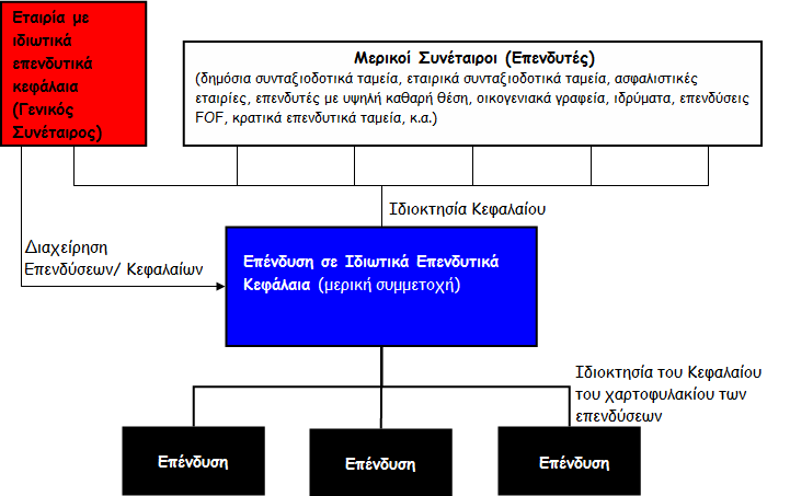 Diagram of private equity fund structure for Private equity, Private equity fund, Private equity firm